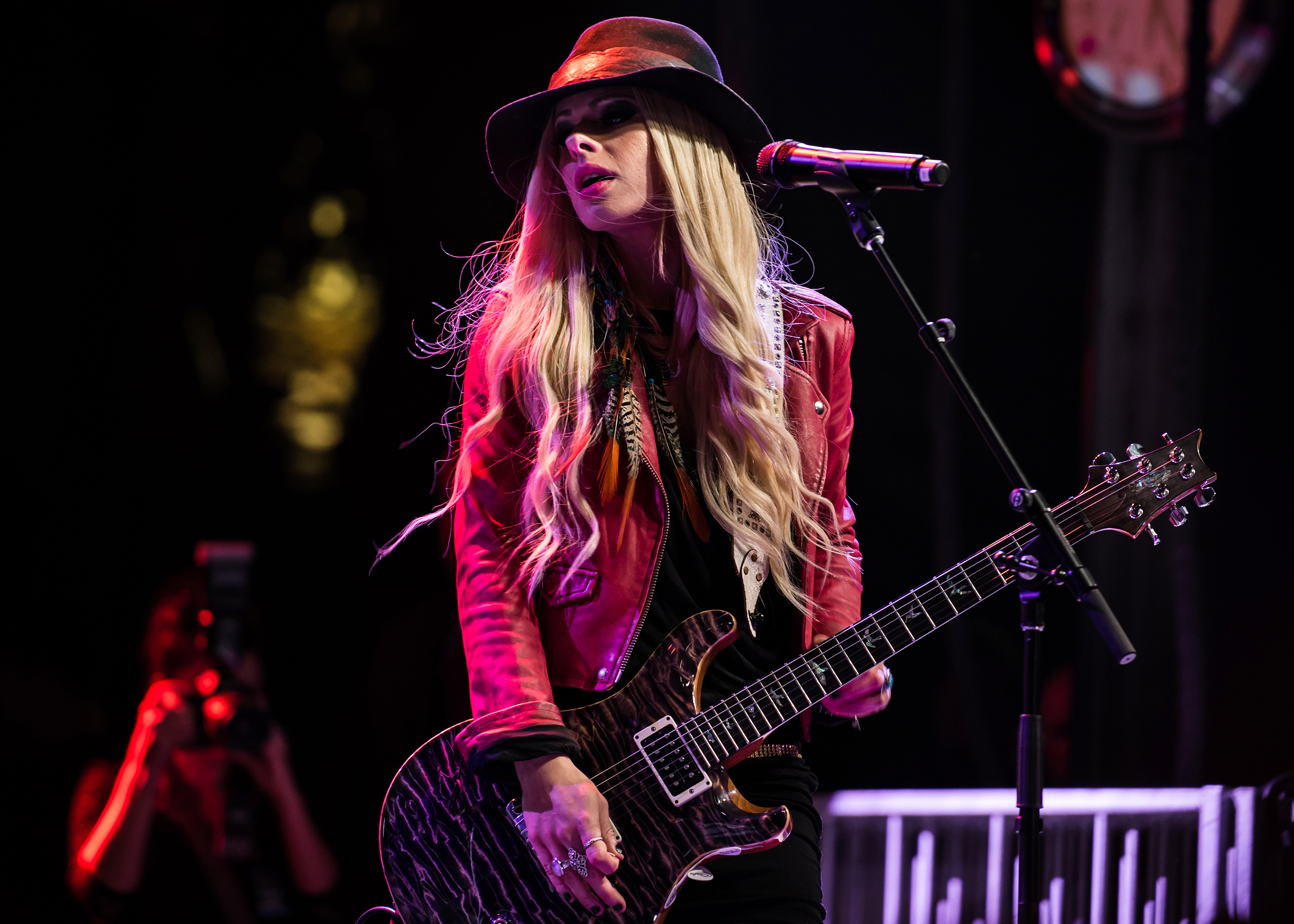 Orianthi perfoming live with Ritchie Sambora